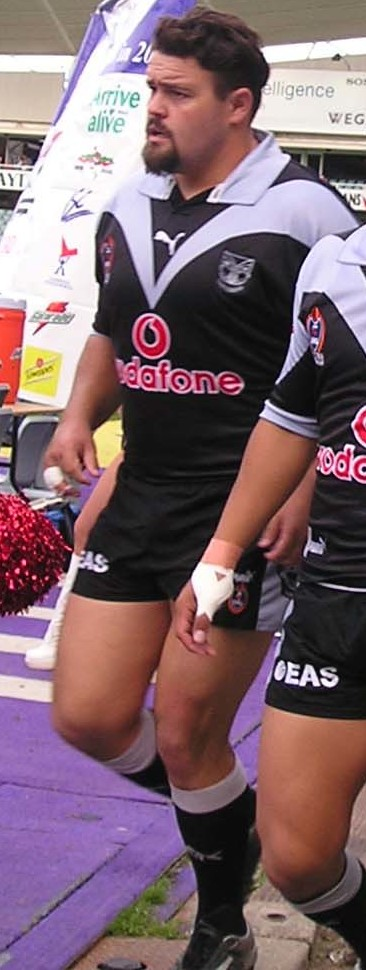 Mark Tookey and Thomas Leuluai - Sydney Football stadium 2005